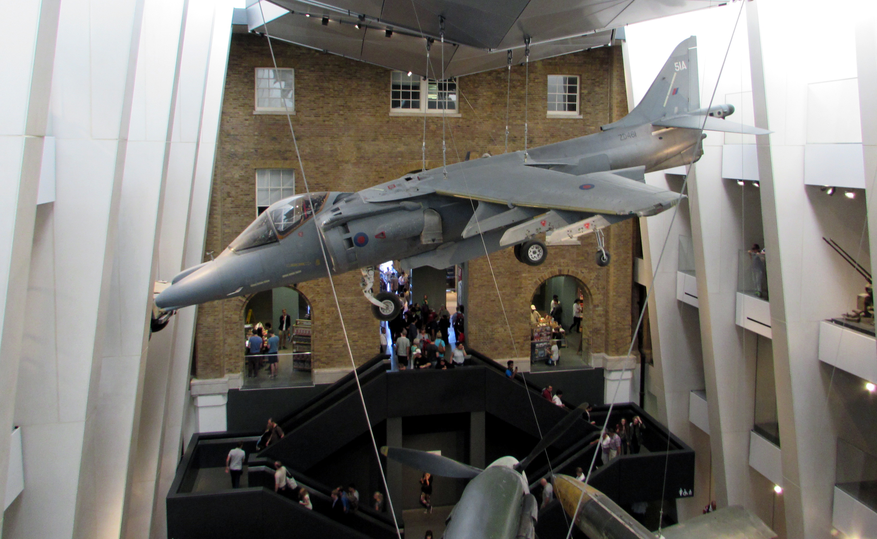 Atrium after revamp including Harrier II